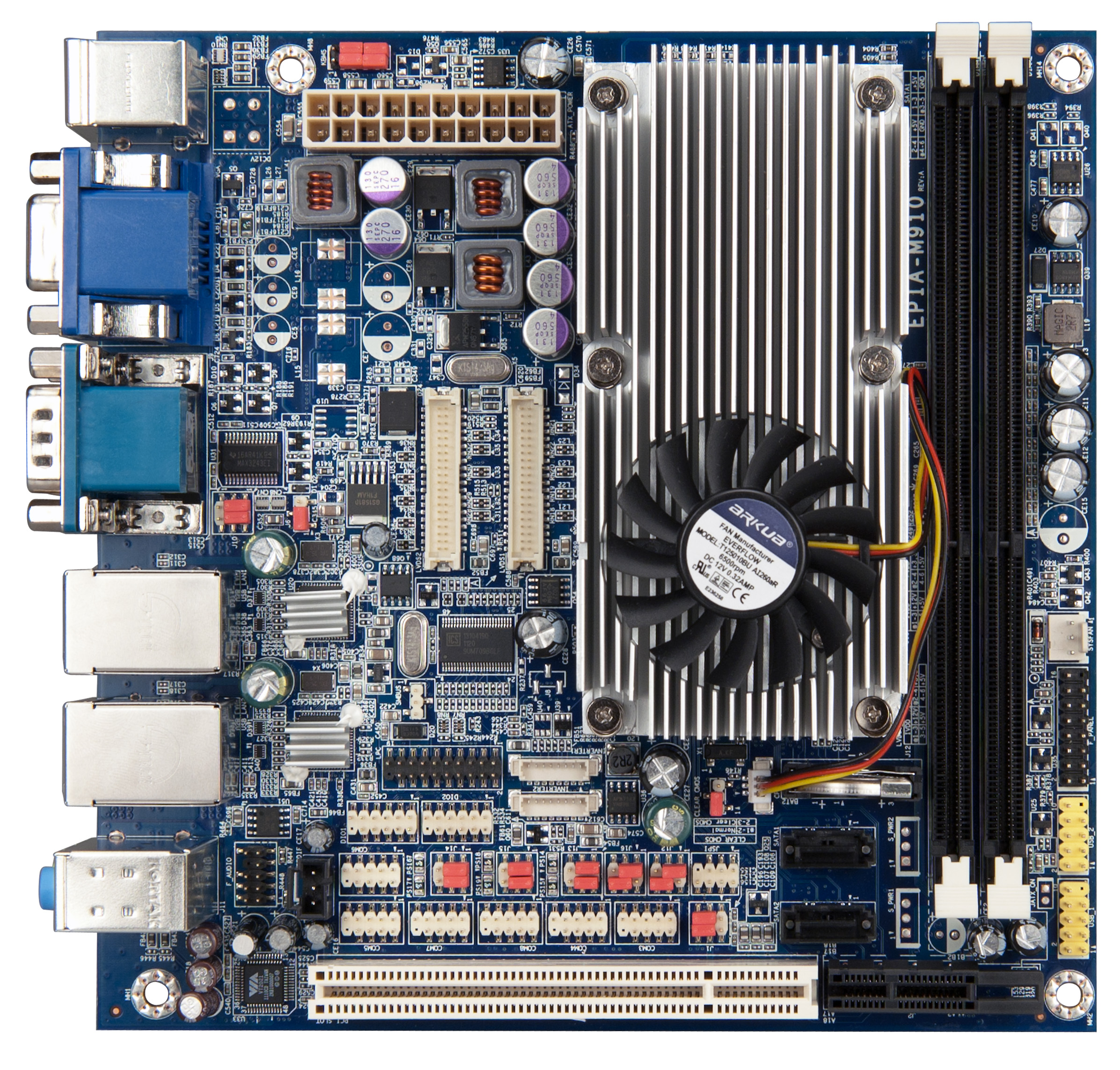 The VIA EPIA-M910 Mini-ITX board is available with a performance orientated 1.6GHz VIA Nano X2 dual core processor. Shown here with fan.